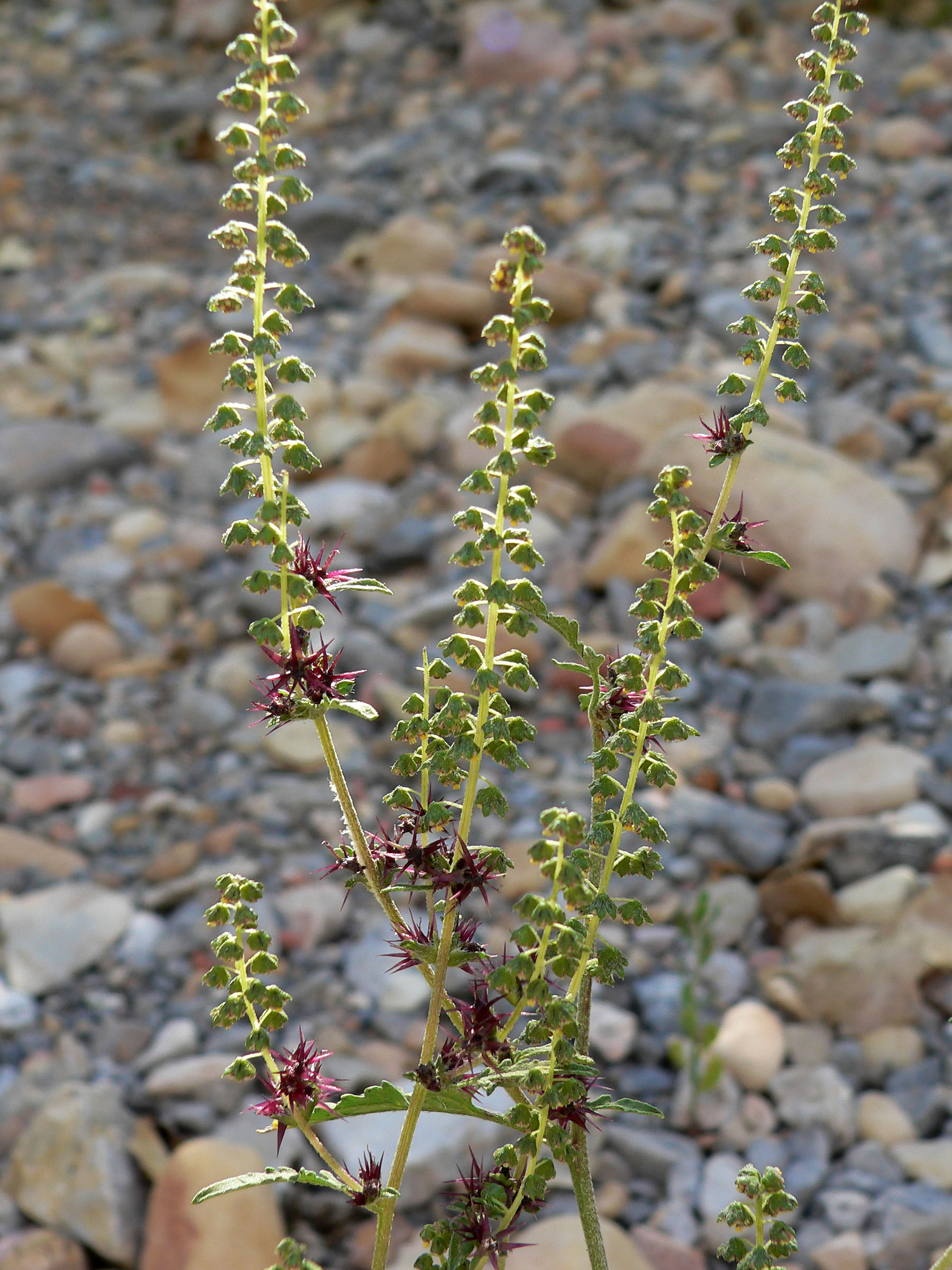 Ambrosia acanthicarpa at Wheeler Camp Spring west of Blue Diamond, Red Rock Canyon, Spring Mountains, southern Nevada (elev. about 1050 m)